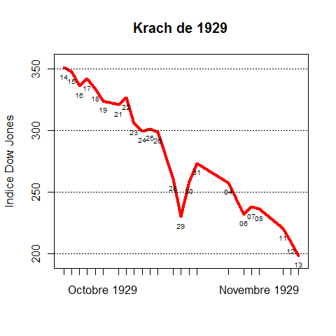 Indice Dow Jones pendant le krach de 1929 (Dow Jones Index [DJIA] during the 1929 crash, labels in French) Author: Kimon Berlin